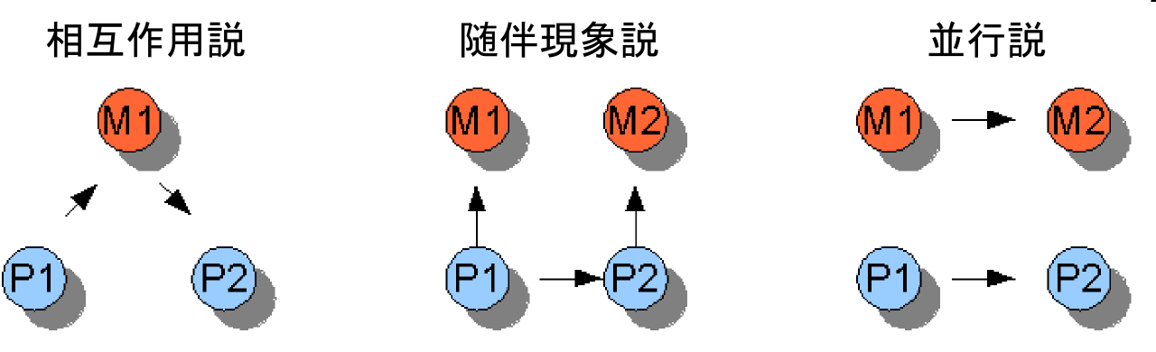 Diagram of causal effects of mind, in Japanese.